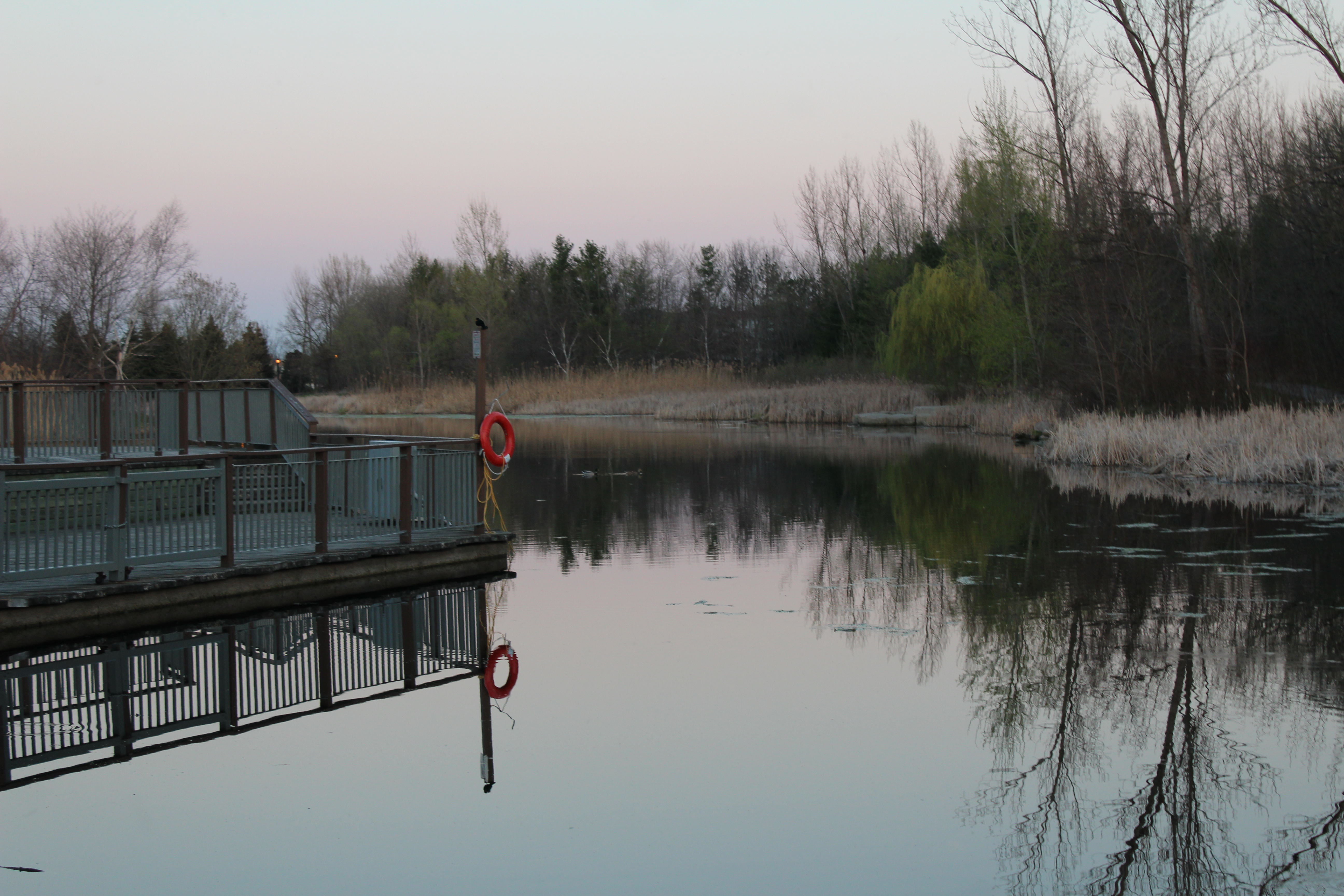 Milliken Park in Scarborough, Ontario.